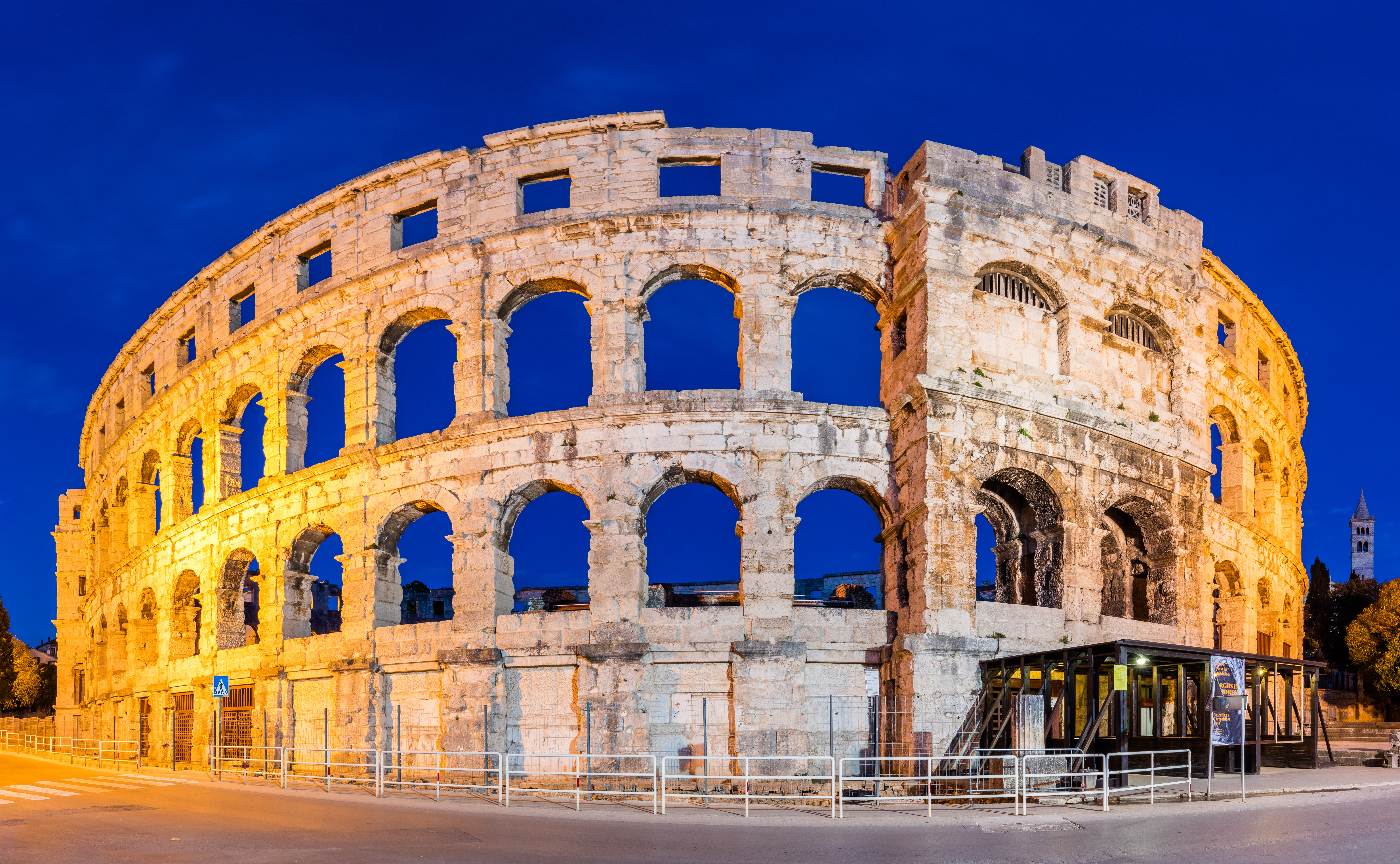 Pula amphitheatre, Croatia. This is a a photo of a cultural heritage in Croatia with ID: Z-863